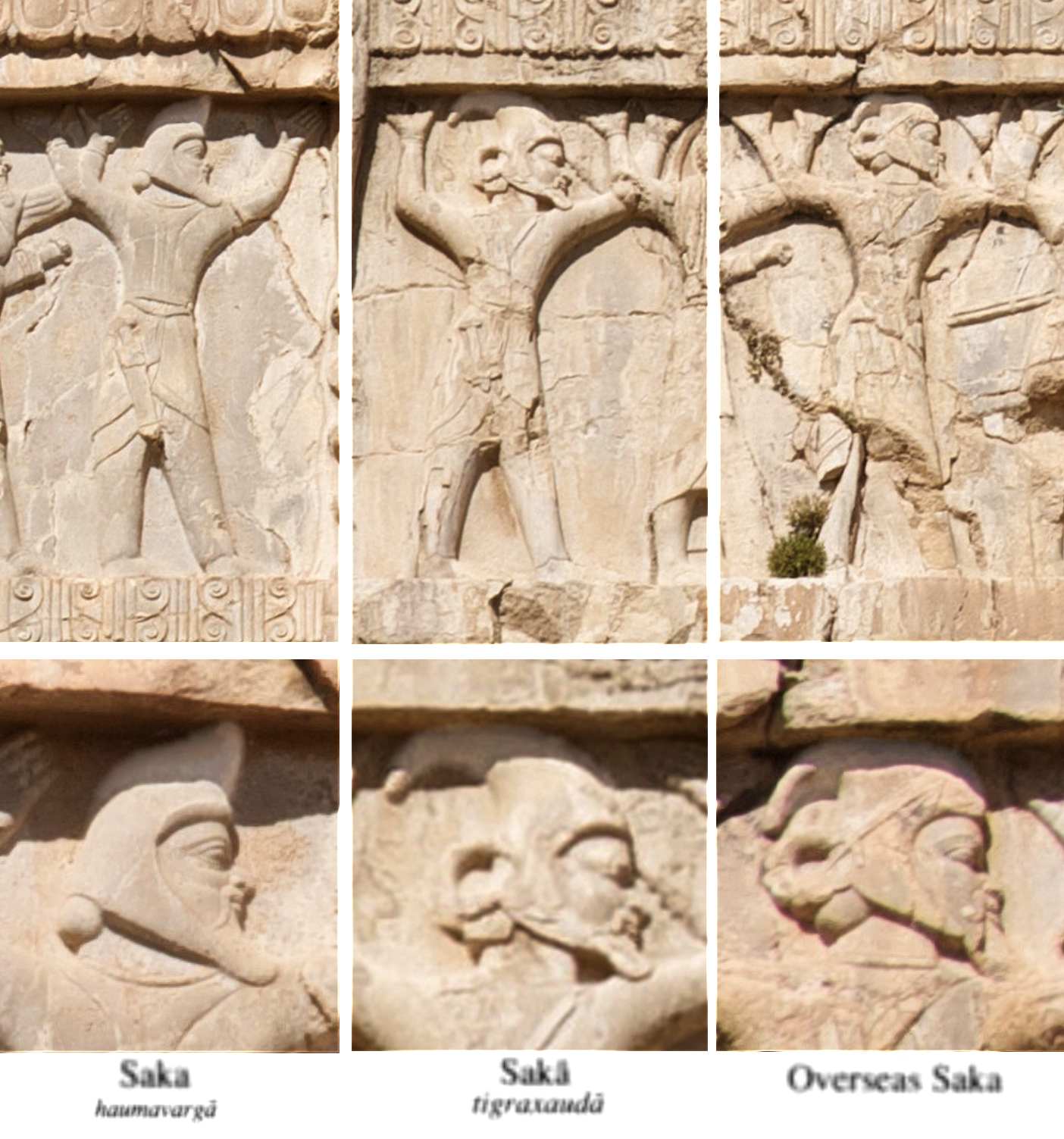 Xerxes detail three types of Sakas